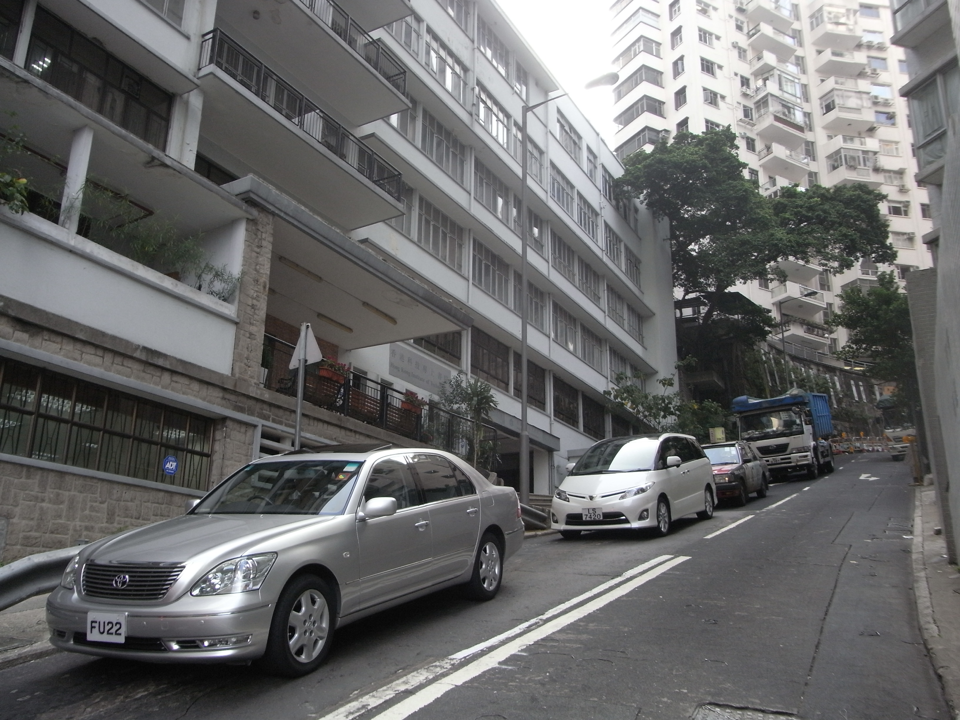 卑利士道